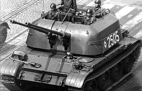 Polish ZSU-57-2 on a street most probably during a parade.